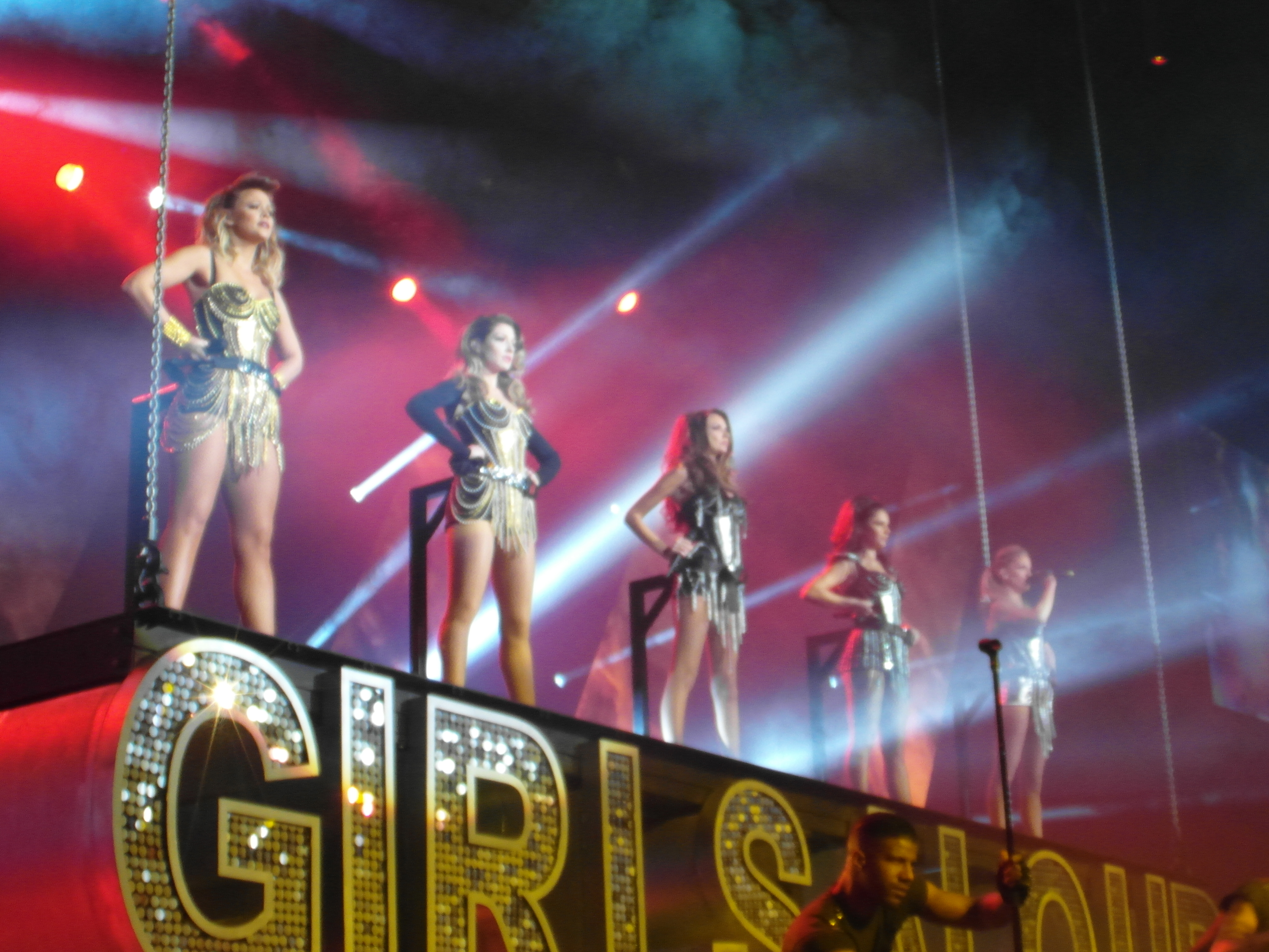 Ten Tour 2013 O2 arena